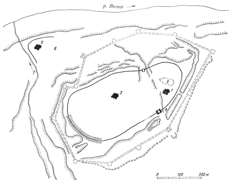 A medieval plan of the wooden fort of Nizhny Novgorod from XIII - XIV century before it was replaced with a stone Kremlin that started in 1374